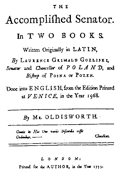 The title page of The Accomplished Senator – William Oldisworth's translation of Wawrzyniec Grzymała Goślicki's De optimo senatore